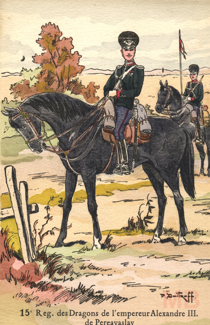 Uniform of 15-th dragoon Pereyaslavl Regiment. 1914 Postcard.